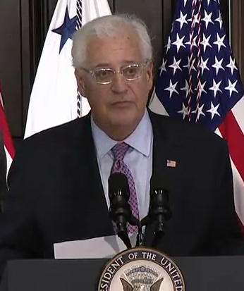 David M. Friedman at his swearing-in ceremony as United States Ambassador to Israel in the Indian Treaty Room